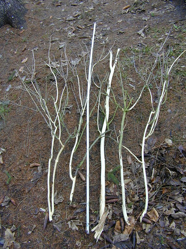 Twigs of Sambucus nigra, damaged by Myodes glareolus